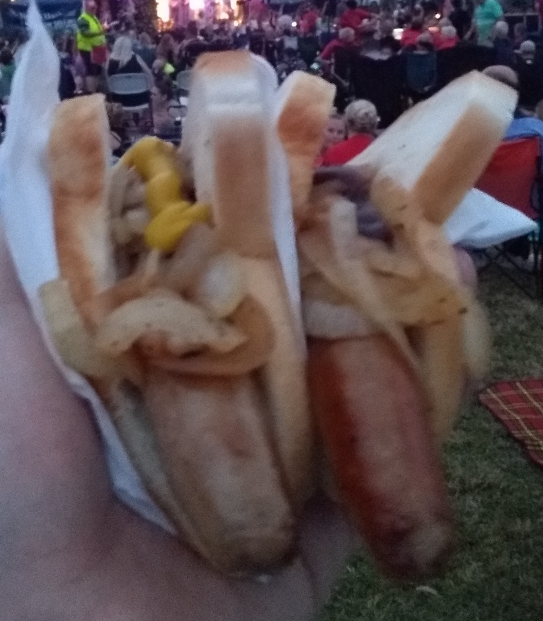 "My first sausage sizzle" - cropped